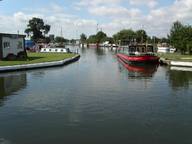 Saul Junction on the Gloucester and Sharpness Canal. Saul Junction is the point where the Stroudwater canal met the Gloucester and Sharpness canal. The view is south west towards the Frampton on Severn direction.